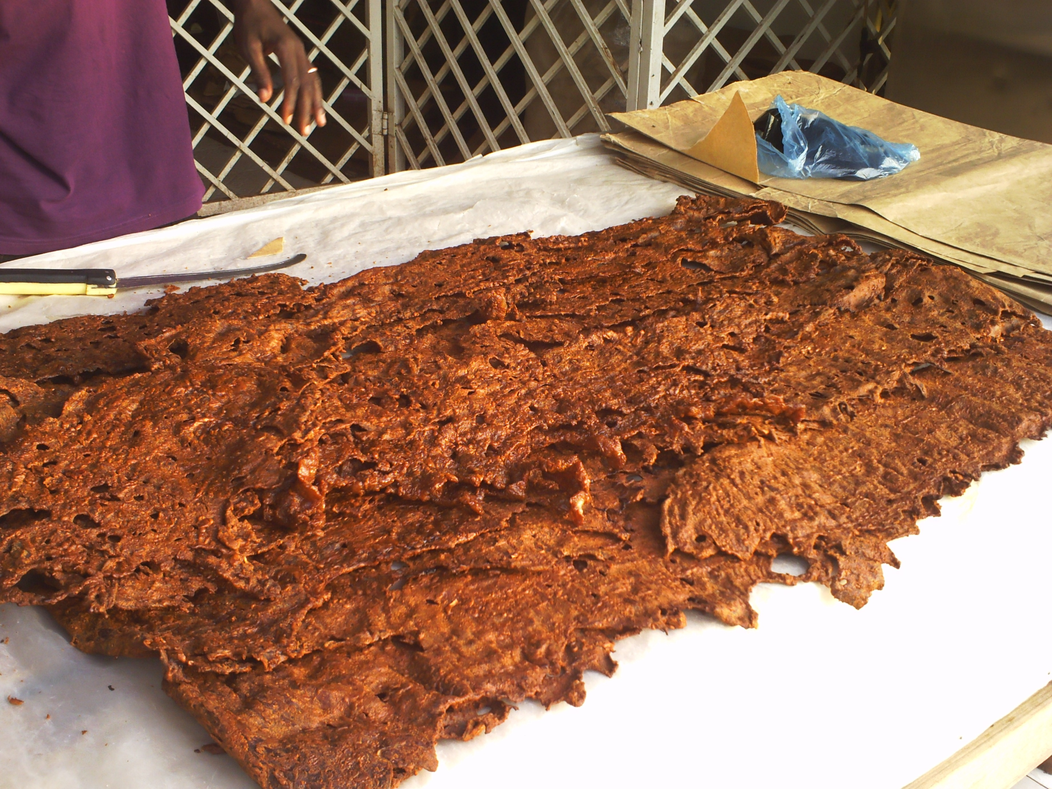 Hausa: Kilishi is made from sliced and dried beef, coated with peanut paste "Labu" in Hausa.